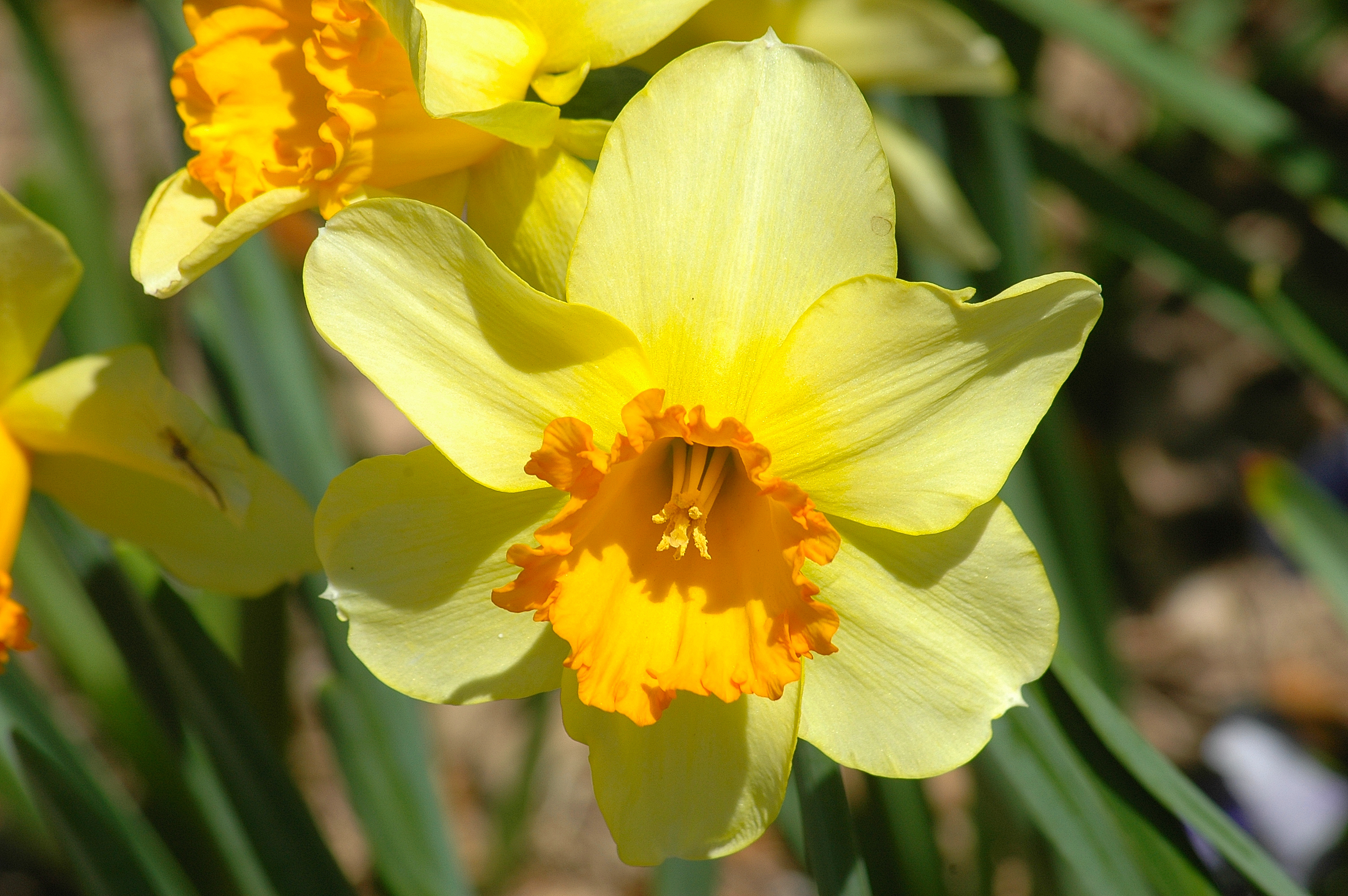 Yellow daffodil. Exact species unknown - Identification is appreciated. Taken at Dallas Arboretum and Botanical Garden, Texas, USA.